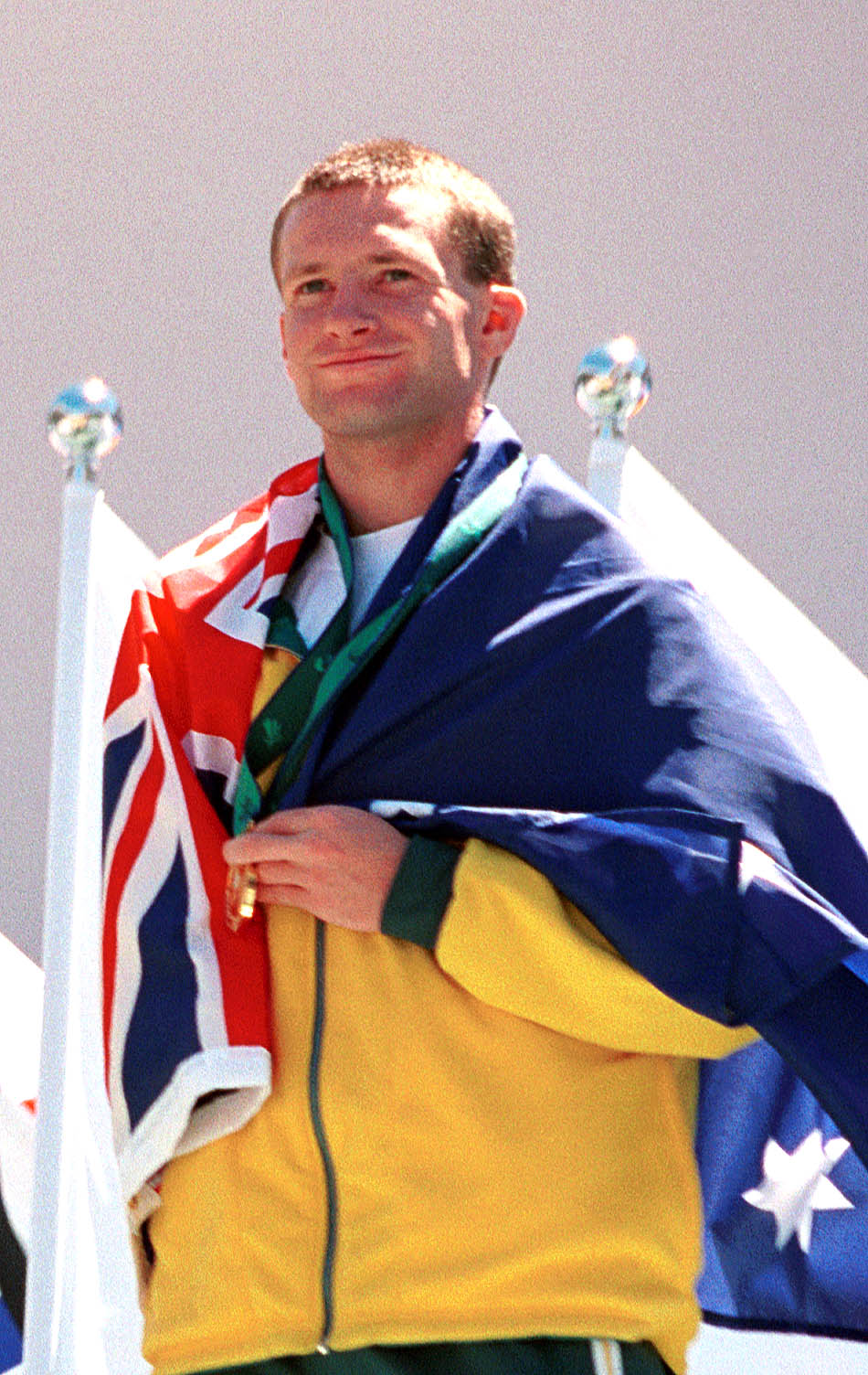 Australian track athlete Heath Francis wrapped in the Australian flag, holds his gold medal won in the Men's 4 x 100 m T46 relay at the 2000 Sydney Paralympic Games